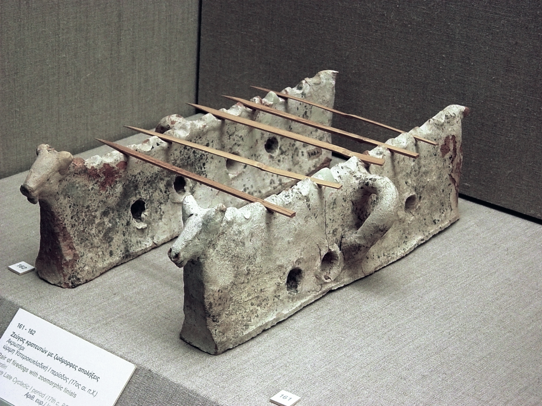 Utilitarian terracotta object, Museum of Cycladic Culture, Akrotiri excavation artifacts, Santorini, Cyclides, Hellas (Greece)